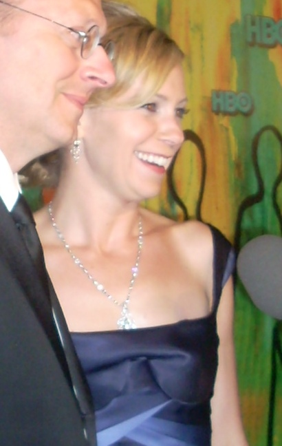 HBO Post-Emmys Party, Pacific Design Center, Sept. 21, 2008